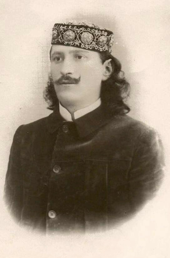 Çerçiz Topulli